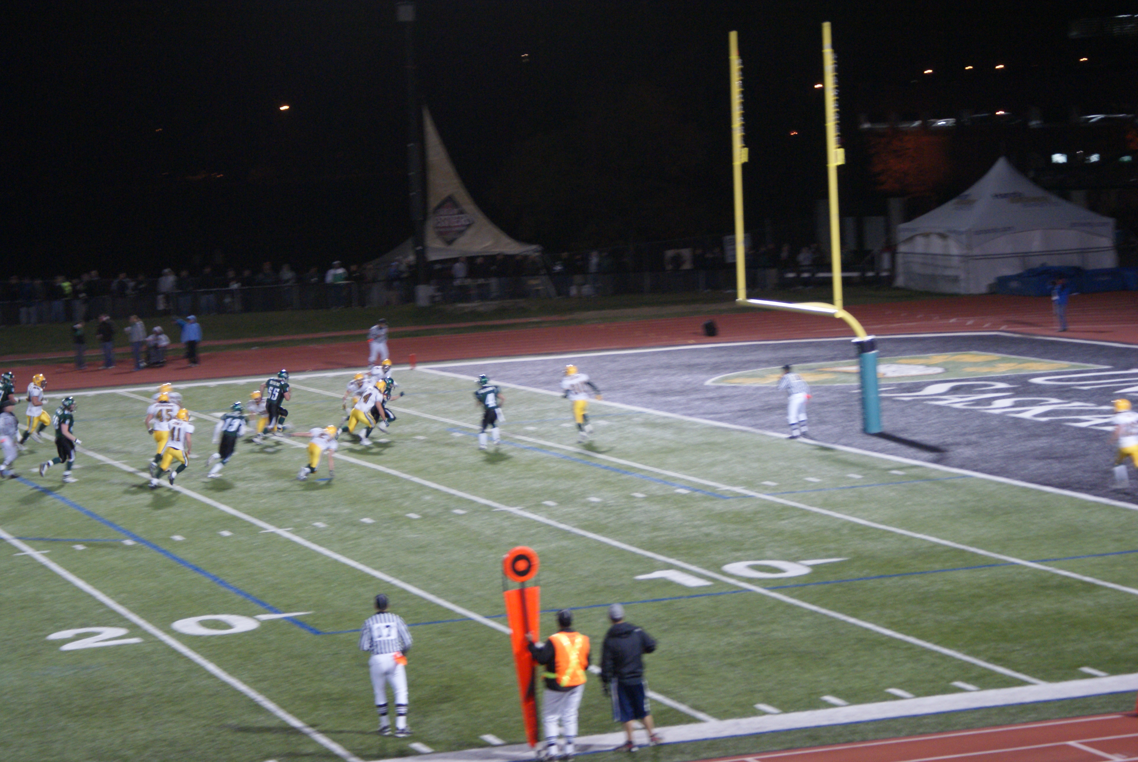 University of Saskatchewan Huskies 35-12 win over the University of Alberta Golden Bears Friday September 26, 2008 at Griffiths Stadium Saskatoon, Saskatchewan University of Saskatchewan Huskies Huskies going in for a touchdown